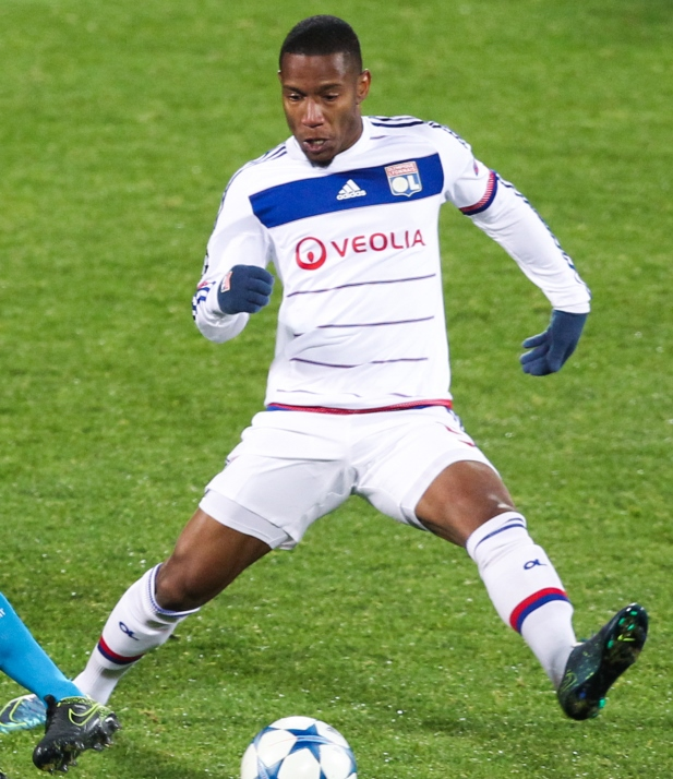 20.10.15. Россия, Санкт-Петербург, стадион «Петровский». Лига Чемпионов УЕФА 2015/16, 3 тур группового этапа, «Зенит» — «Лион». На снимке в синей форме: Луиш Нету, защитник ФК «Зенит».